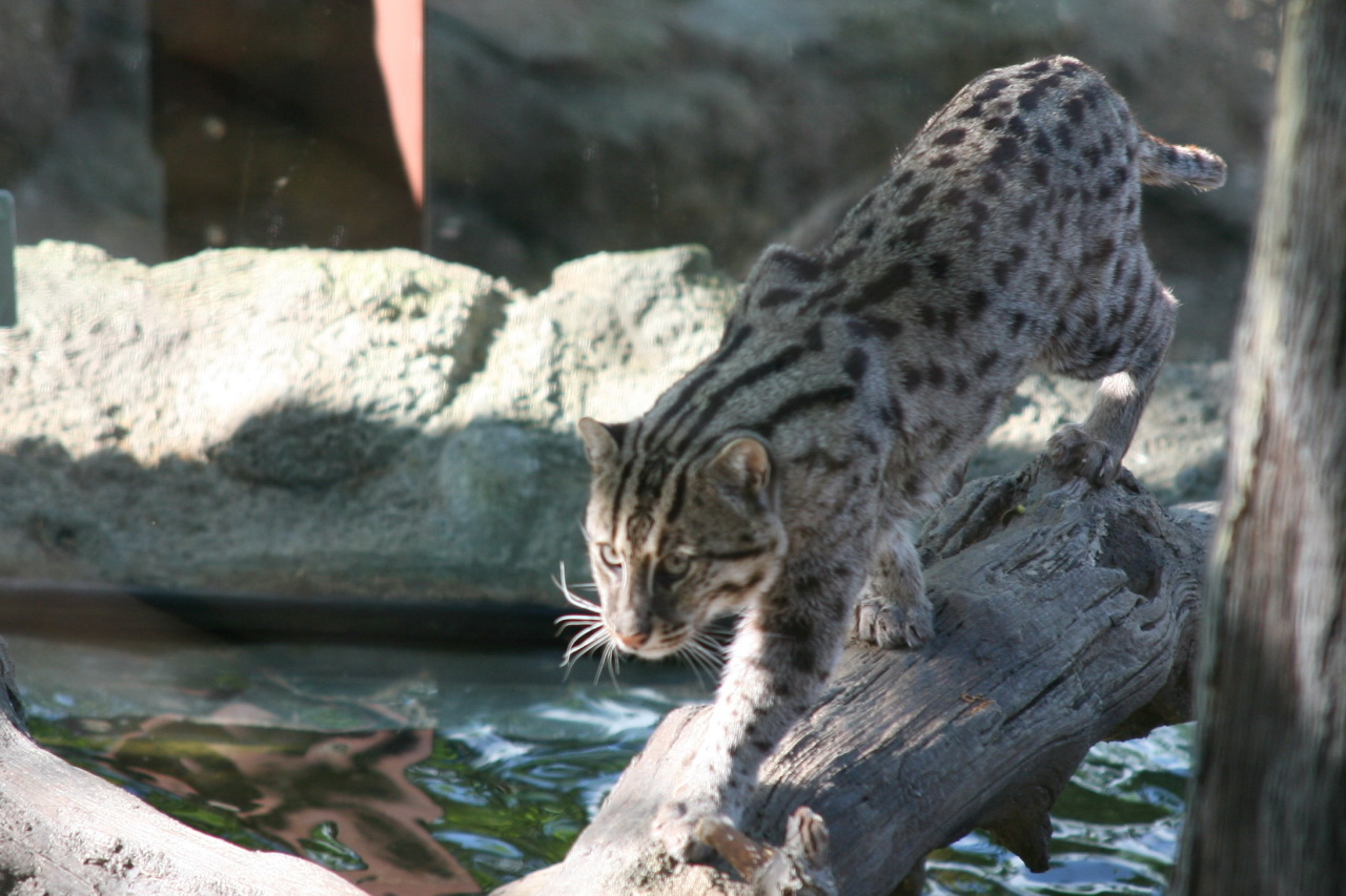 Part of the fishing cat's scientific name, viverrinus, comes from the taxonomic family Viverridae. Like the fishing cat, civets and other members of this group have long bodies and short legs, and many have stripes or spots along the body, and banded tails.